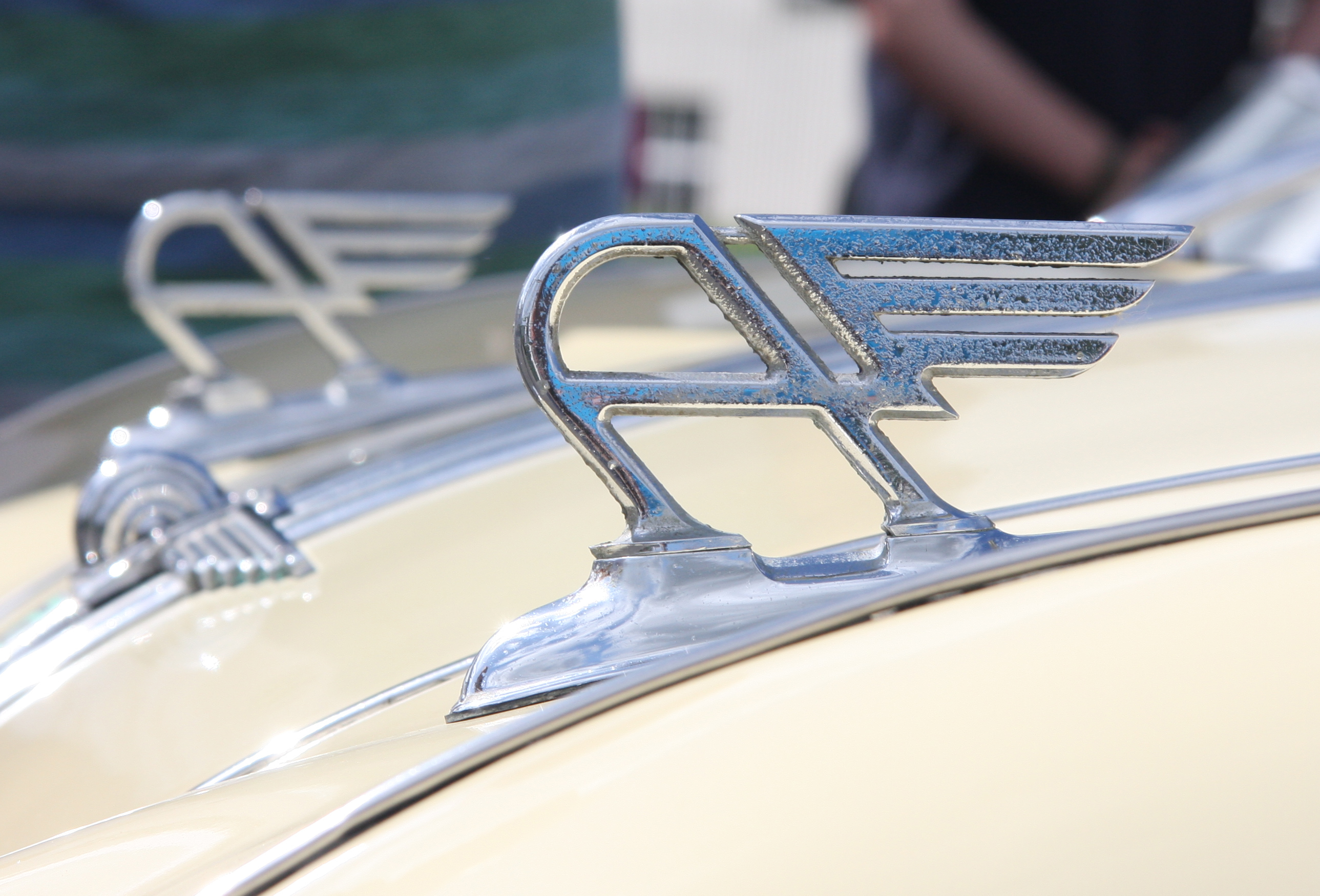 Austin A90 Atlantic motifs